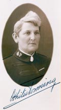 Photographic portrait with signatur of Norwegian salvationist Othilie Tonning (1865-1931). Frelsesarmeens første slumsøster